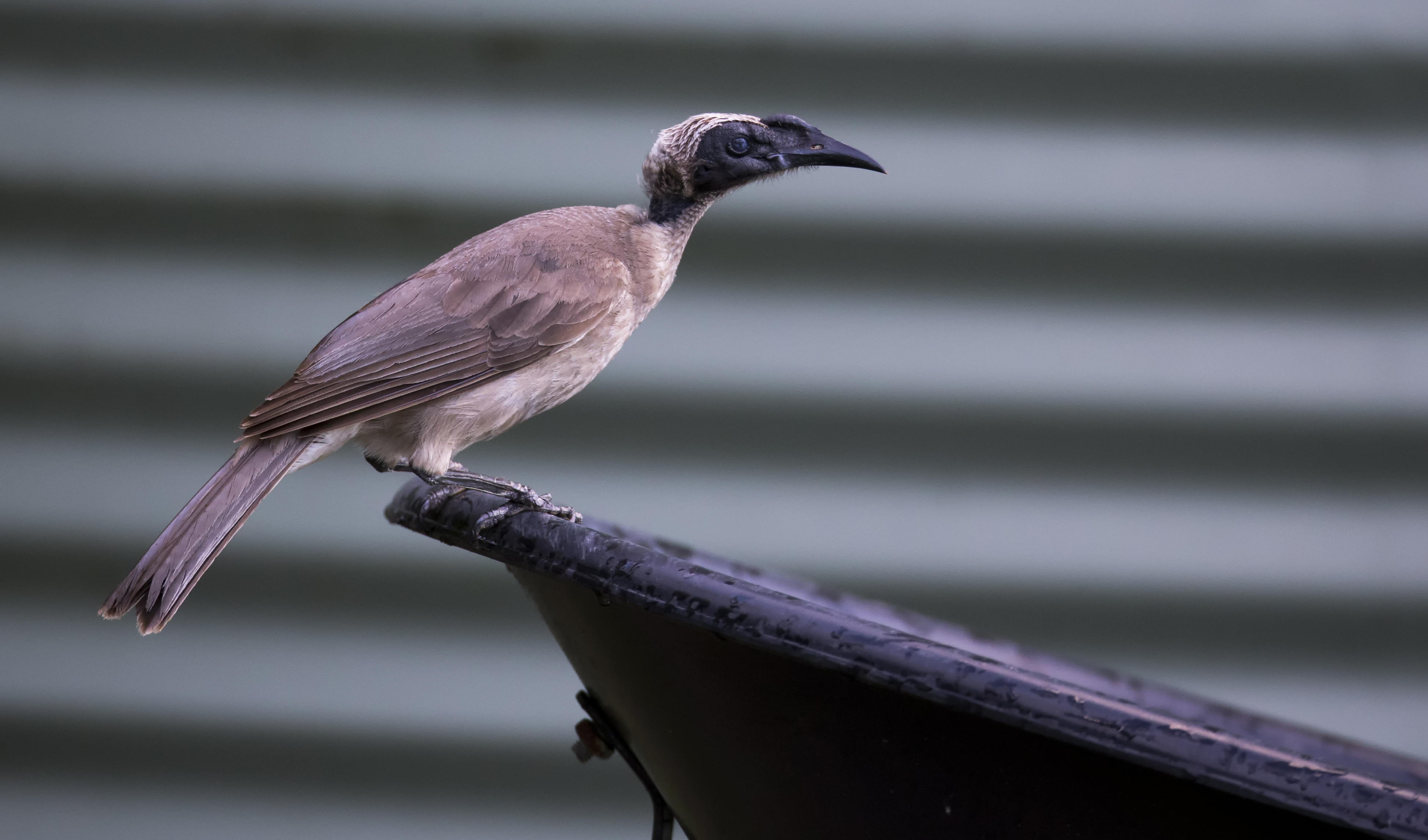 Inspecting the wheelbarrow